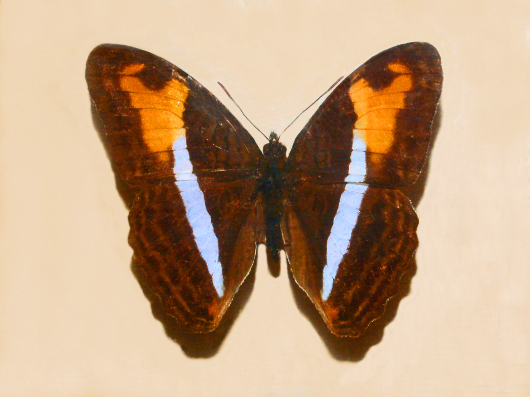 Adelpha plesaure from Brazil